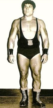 Rubén Peucelle- boxeador argentino